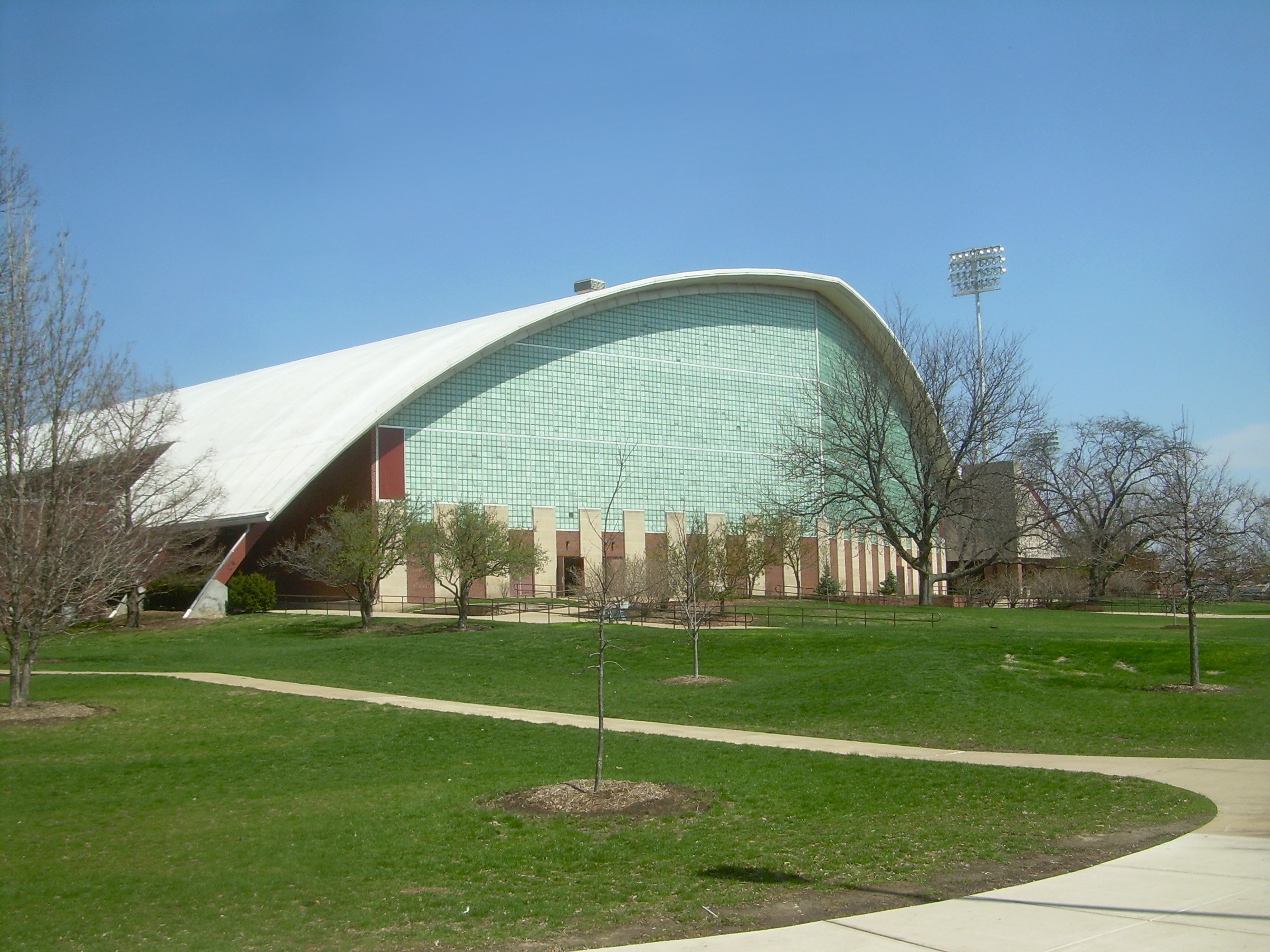 Horton Field House. Illinois State University, Normal, Illinois.